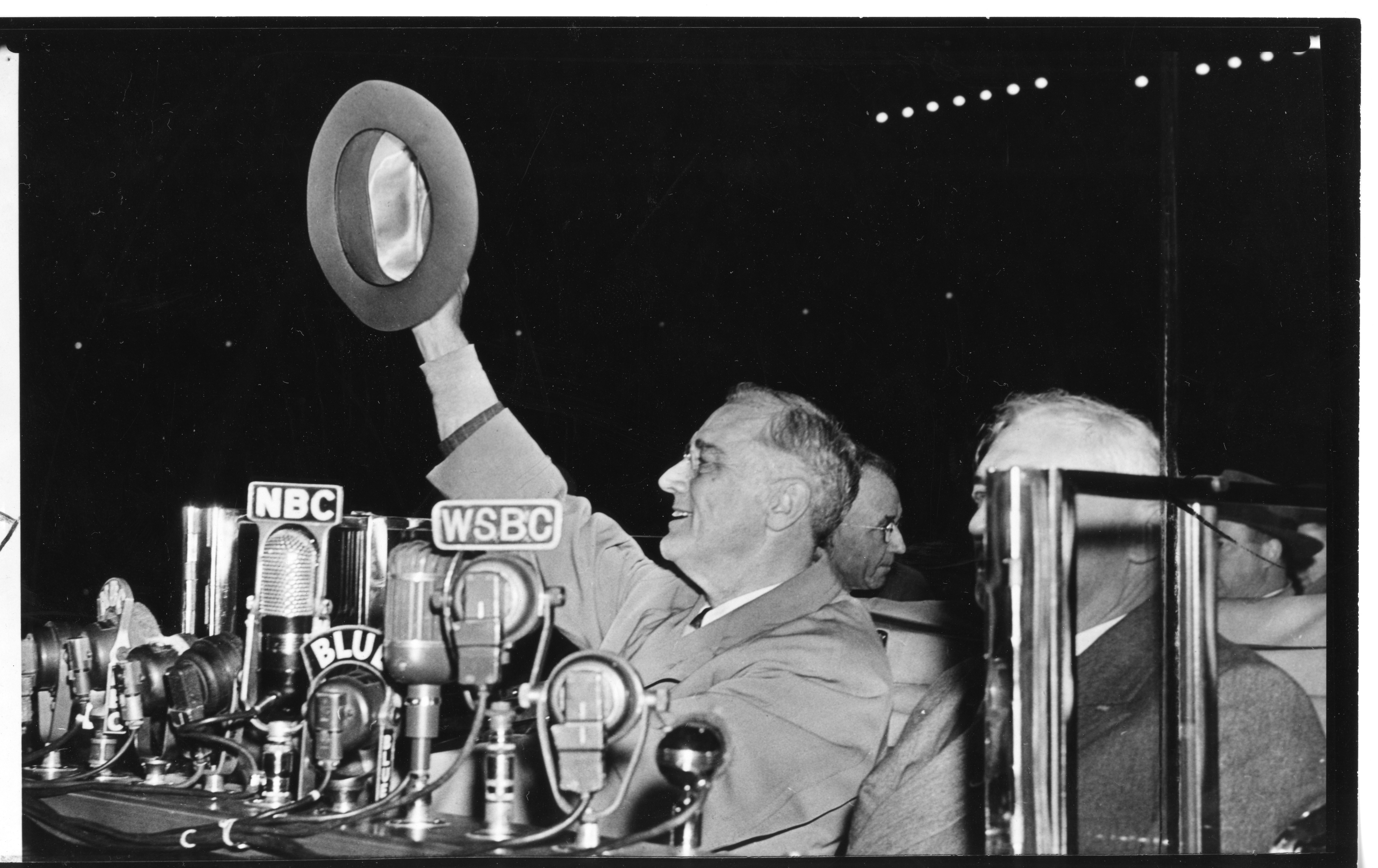 Franklin D. Roosevelt campaigns at Soldier's Field, Chicago, Illinois. October 28, 1944